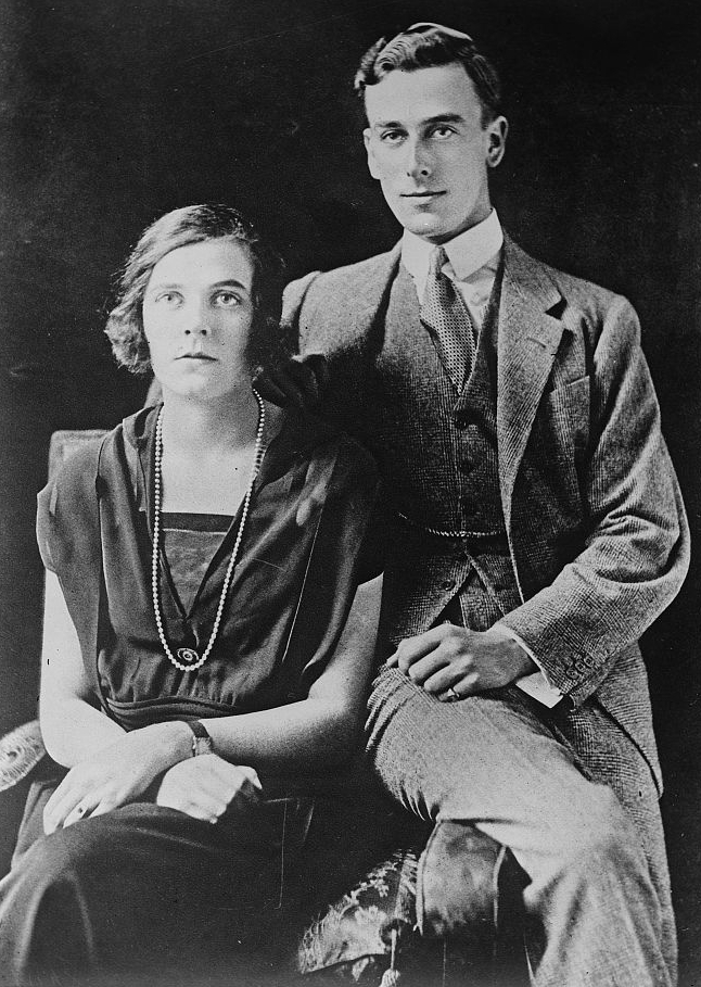 Louis (1900-1979) and Edwina (1901-1960) Mounbatten